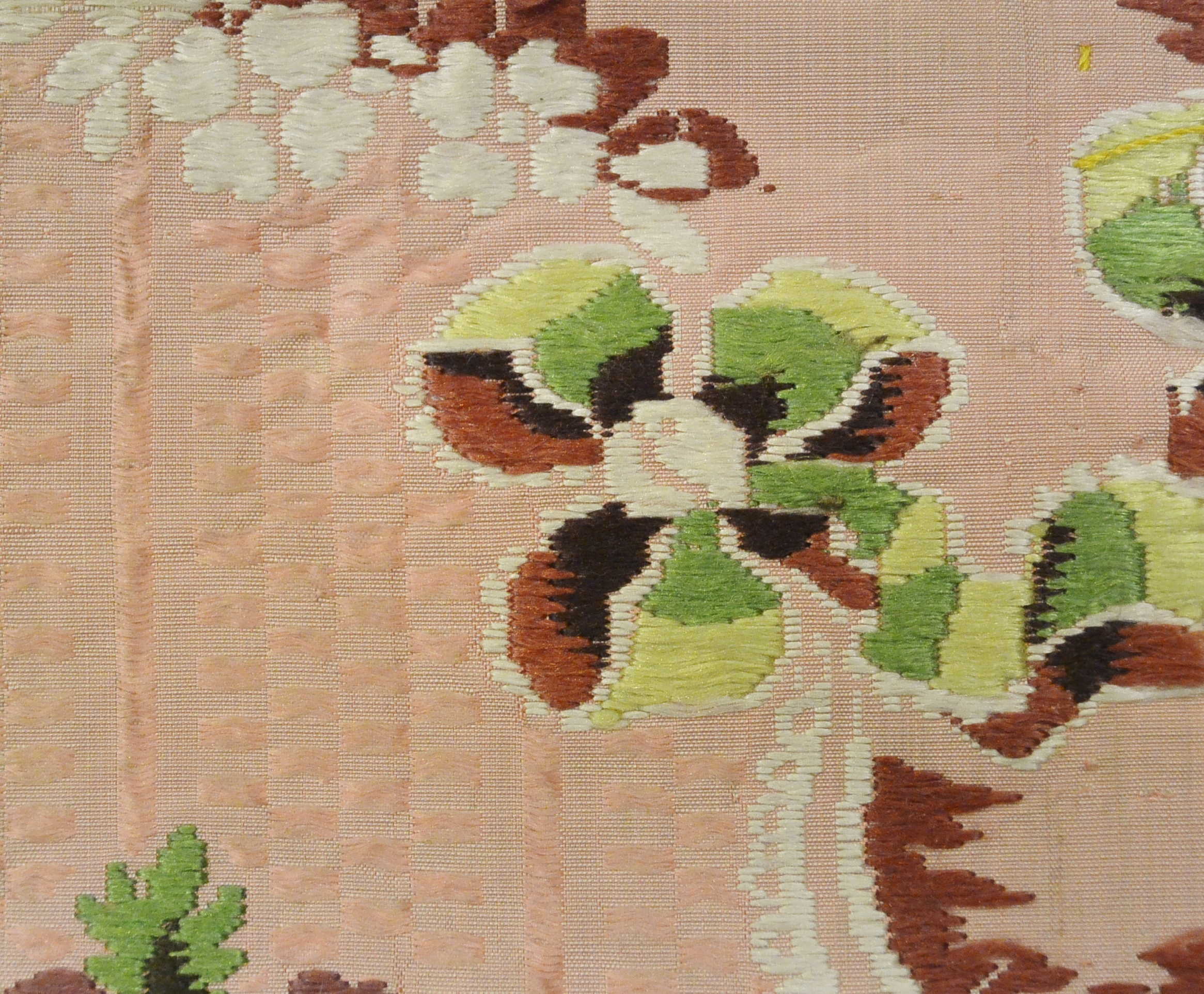 Silk fabric second half 18th century, brocaded pattern, front side.